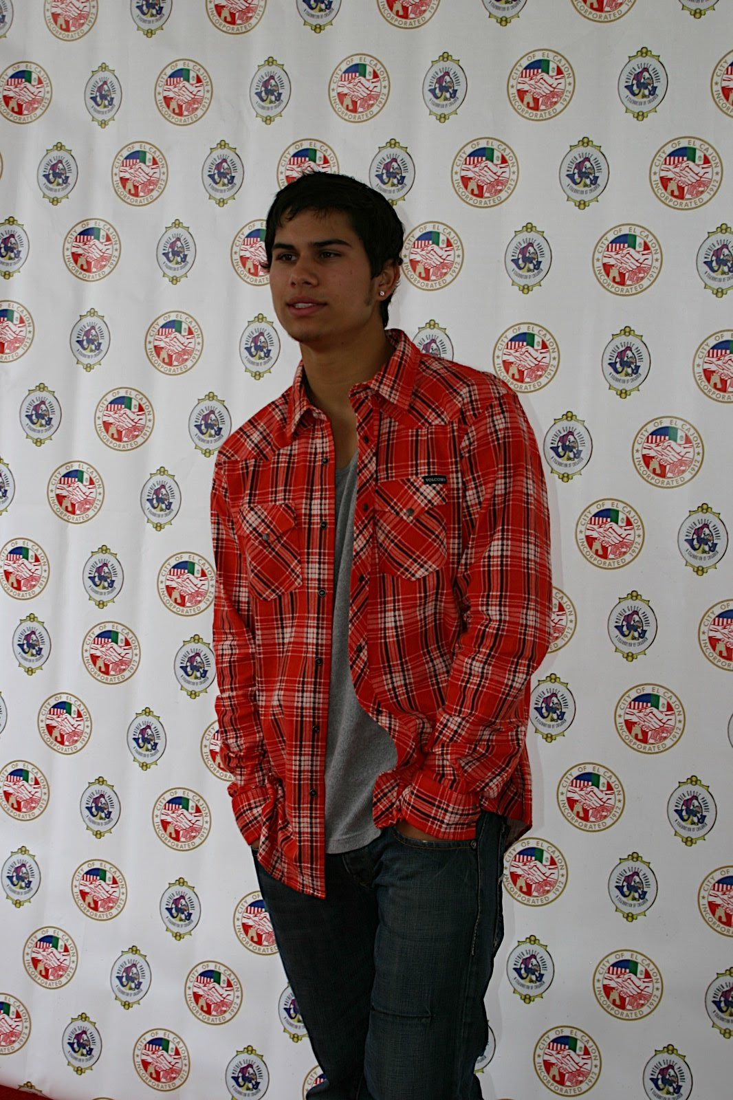 Raja "RJ" Fenske of "Unfabulous" on the red carpet at the 62nd Annual Mother Goose Parade in San Diego County. All Rights Mother Goose Parade / Popular Press Media Group (PPMG) - .